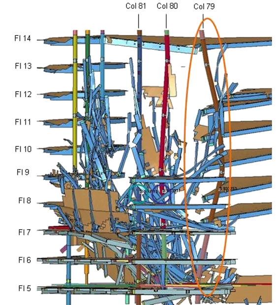 Original description by NIST: "Graphic showing the buckling of WTC 7 Column 79 (circled area), the local failure identified as the initiating event in the building's progressive collapse."